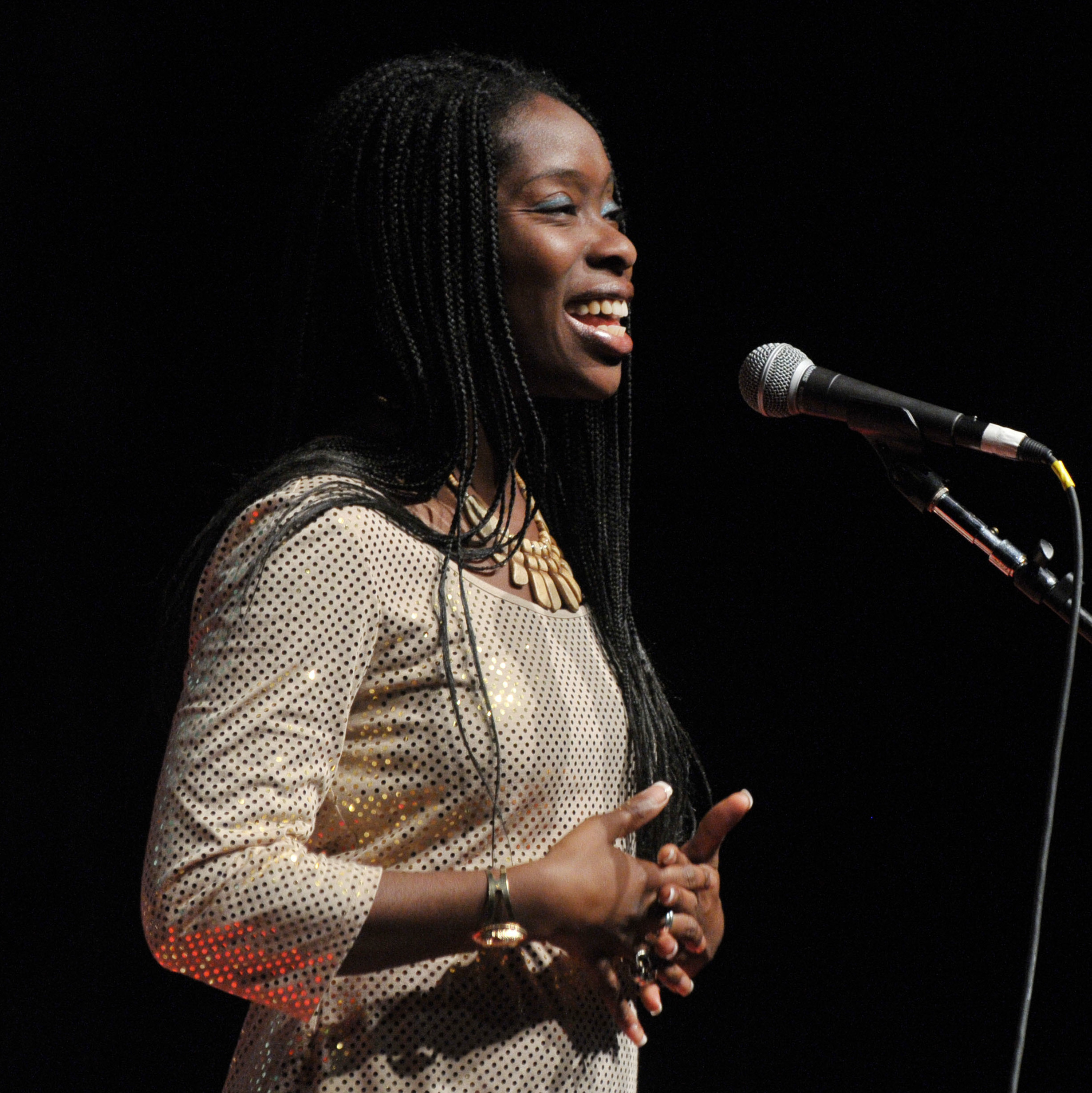 Iyeoka was a featured performer at the TEDxMidAtlantic conference held at Sidney Harman Hall in Washington DC on November 5, 2010.